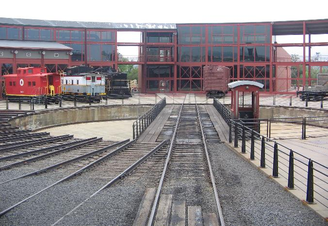 Photo of the turntable and interior of the roundhouse/museum at Steamtown NHS, Scranton, Pennsylvania, August 2007.